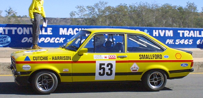 Ford Escort Mk.II Touring Car as raced by Ray Cutchie and Ken Harrison